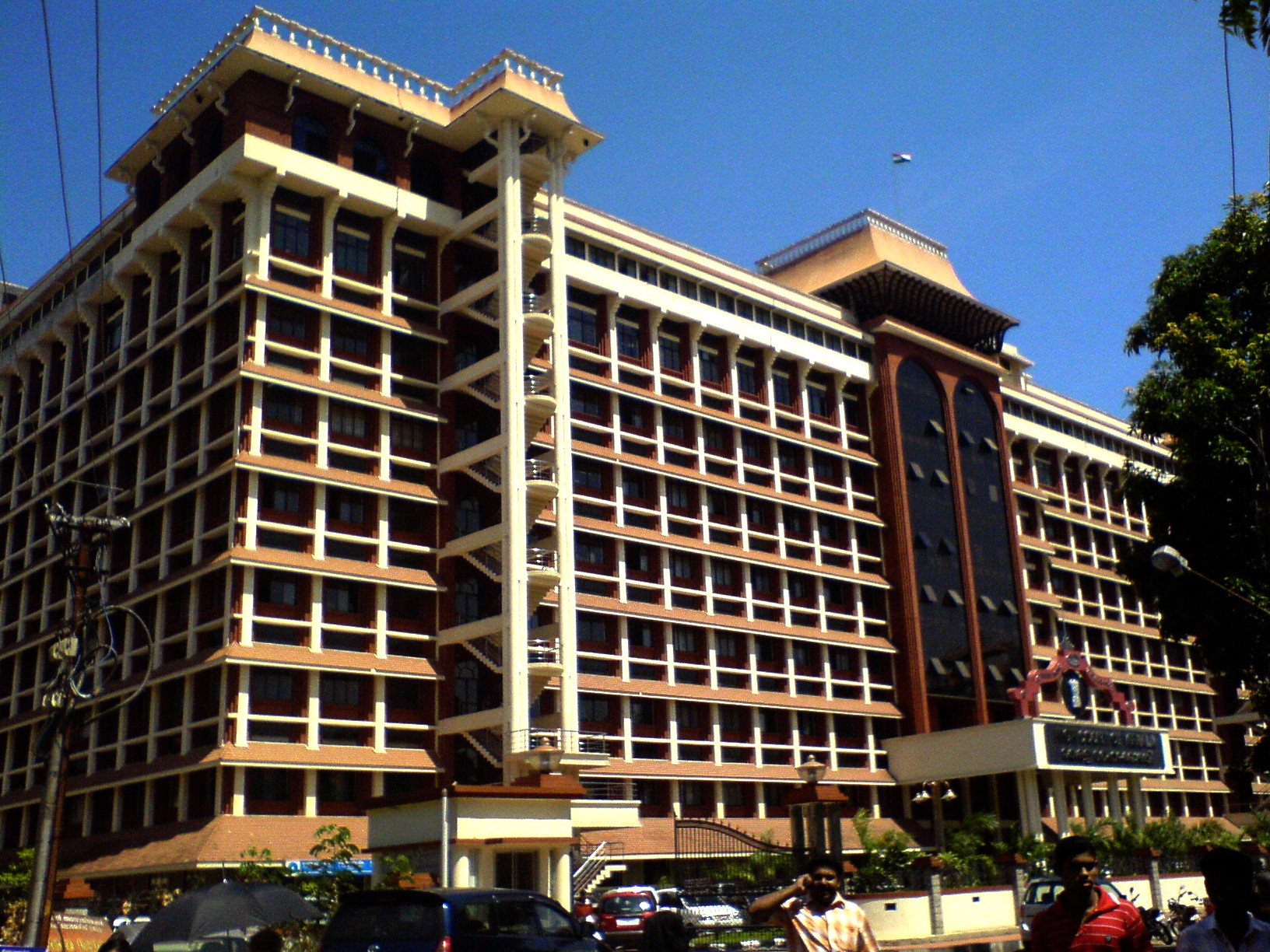 Photographed by Attokaran, with Sony Ericsson K750i Mobile Phone on 14th February, 2007.